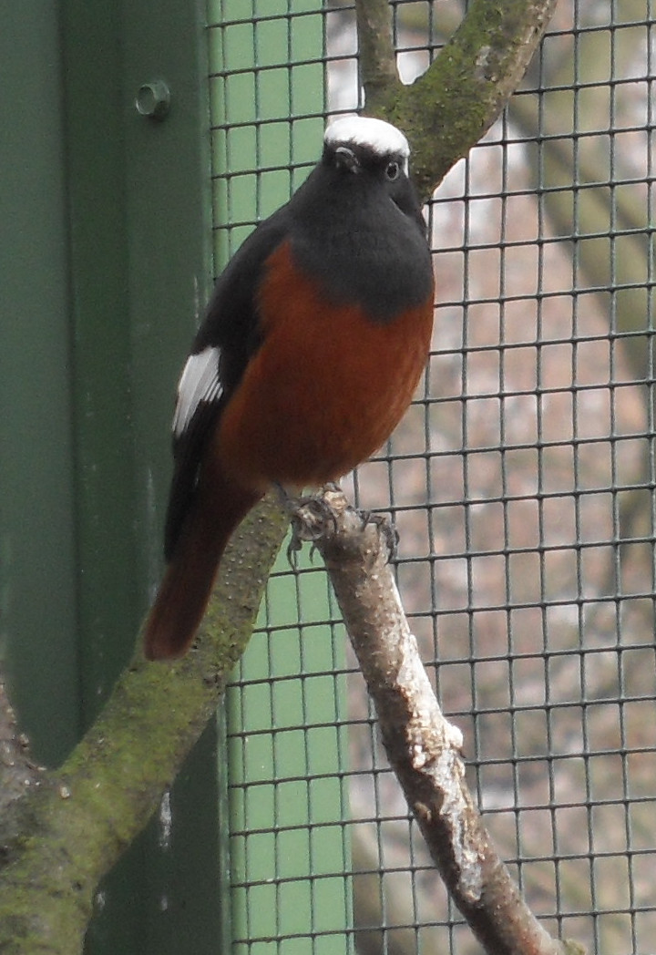 White-winged Redstart, Plzeň zoo